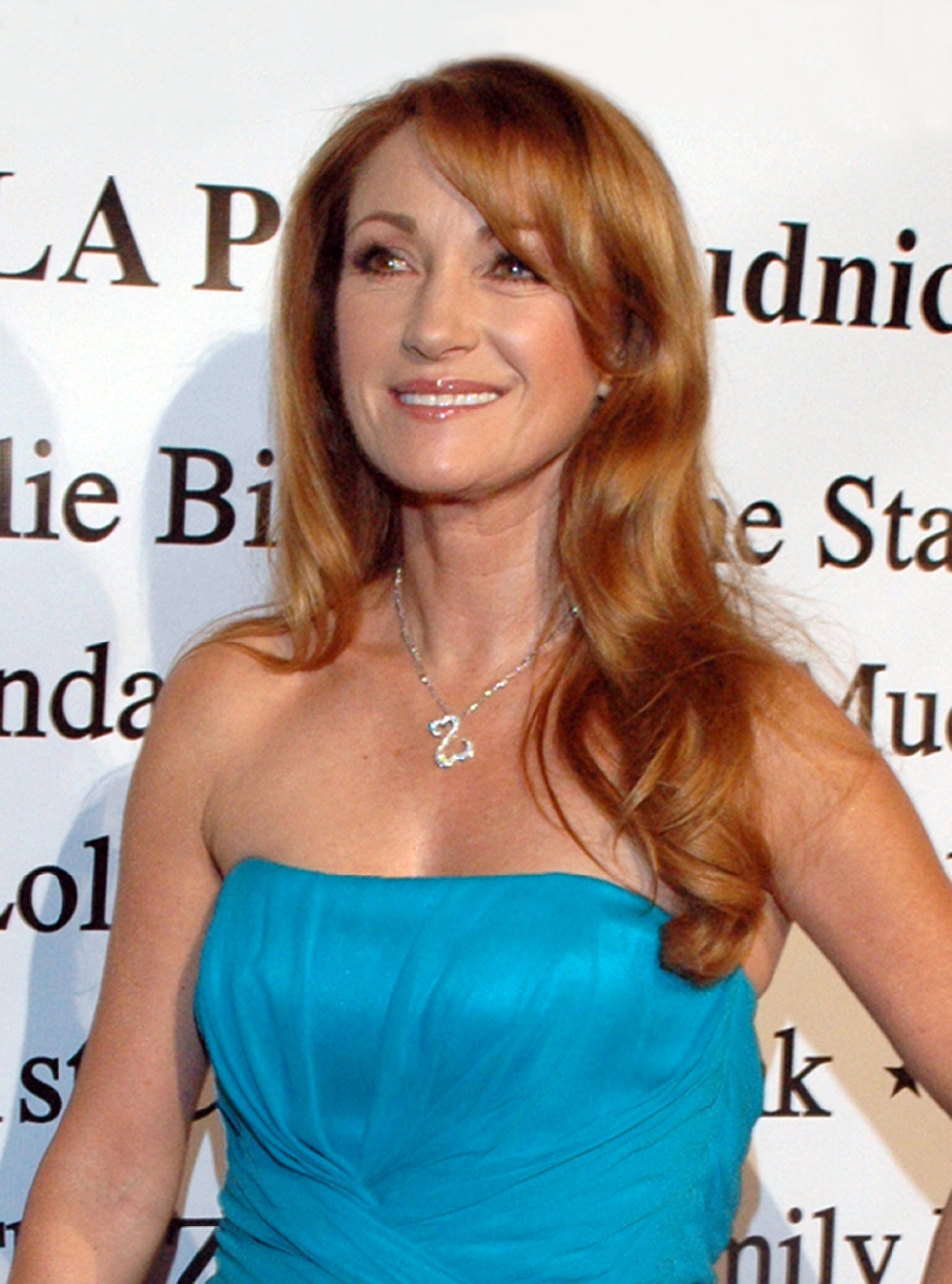 Jane Seymour at the Children Uniting Nations Academy Award Viewing Party, Beverly Hilton, Beverly Hills, Los Angeles, CA, February 22, 2009 (cropped)